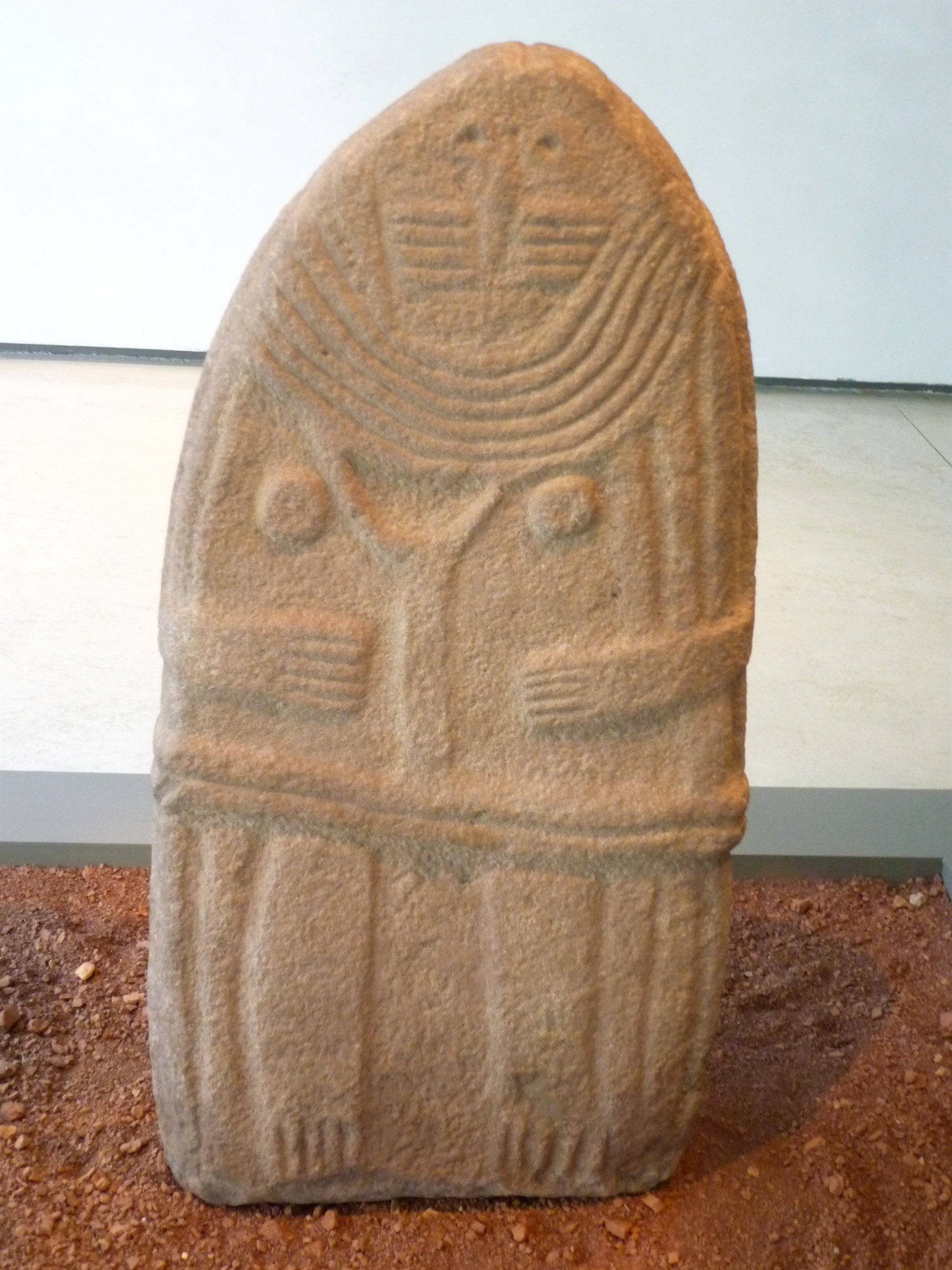 Statue-menhir from Saint-Sernin-sur-Rance, around 3300-2200 BCE, Rodez museum, France